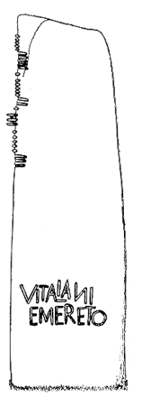 Drawing of both inscriptions (Ogham and Latin) of the Vitalianus Stone, also called Vitalinus Stone and Nevern Stone II. The Vitalianus Stone is located in the St Brynach’s Church Nevern, Pembrokeshire, Wales.